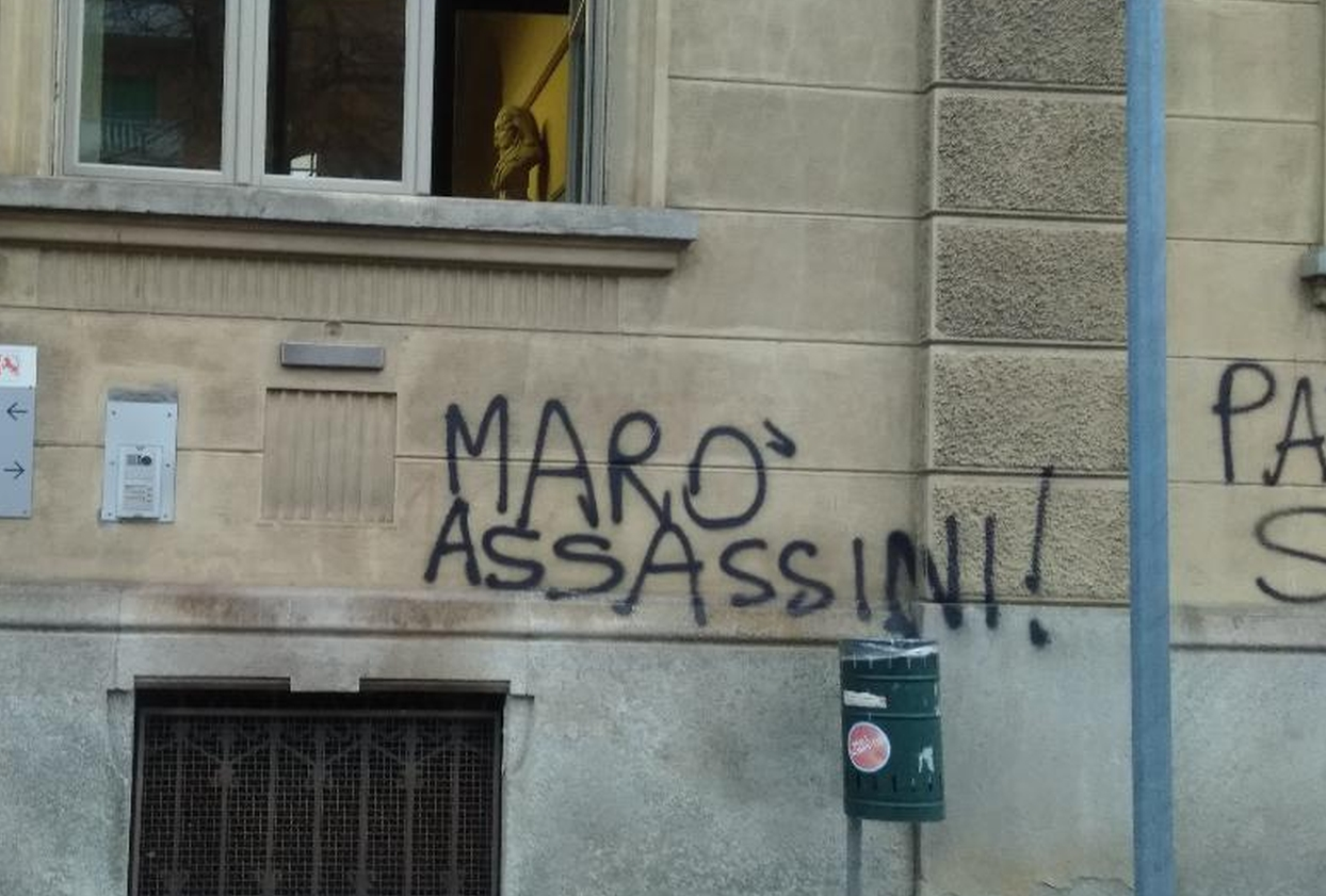 MARO' ASSASSINI: graffiti on a wall in Turin